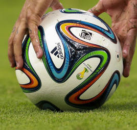 Brazil and Colombia match at the FIFA World Cup 2014-07-04